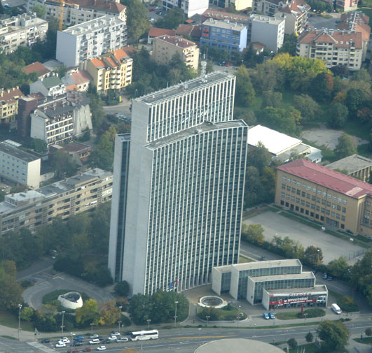 Zagrepčanka business tower, Zagreb, Croatia